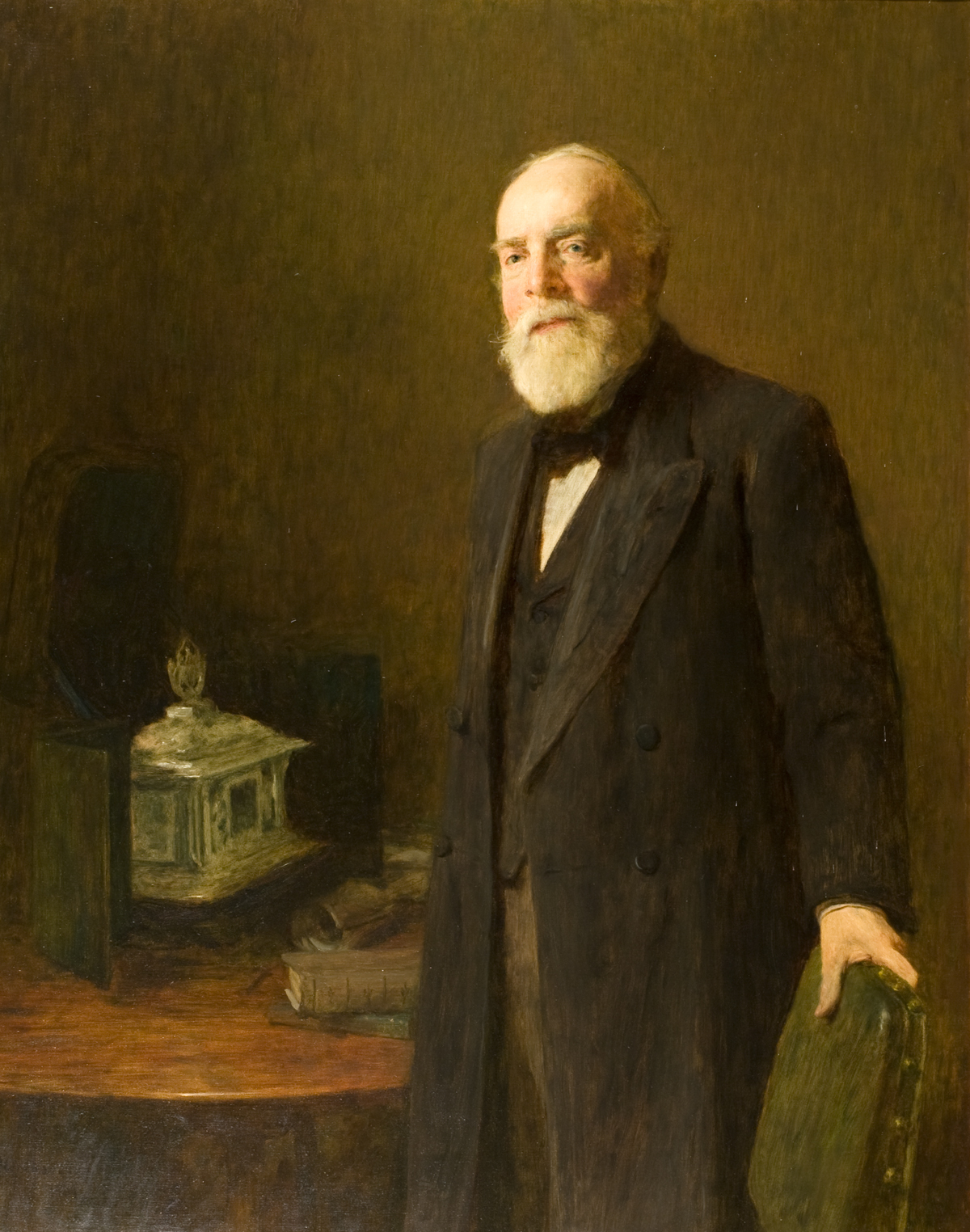 Sir John Leng (1828–1906), MP (1889–1905)